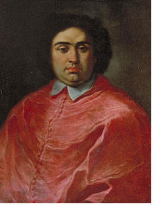 Portrait of Cardinal Annibale Albani